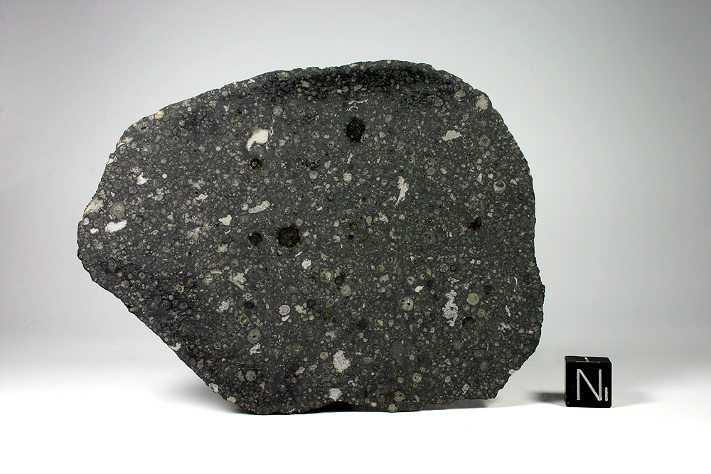 The Author of this image is myself. I made this image, Matteo Chinellato Submitted with expressed permission by Ben Roesch